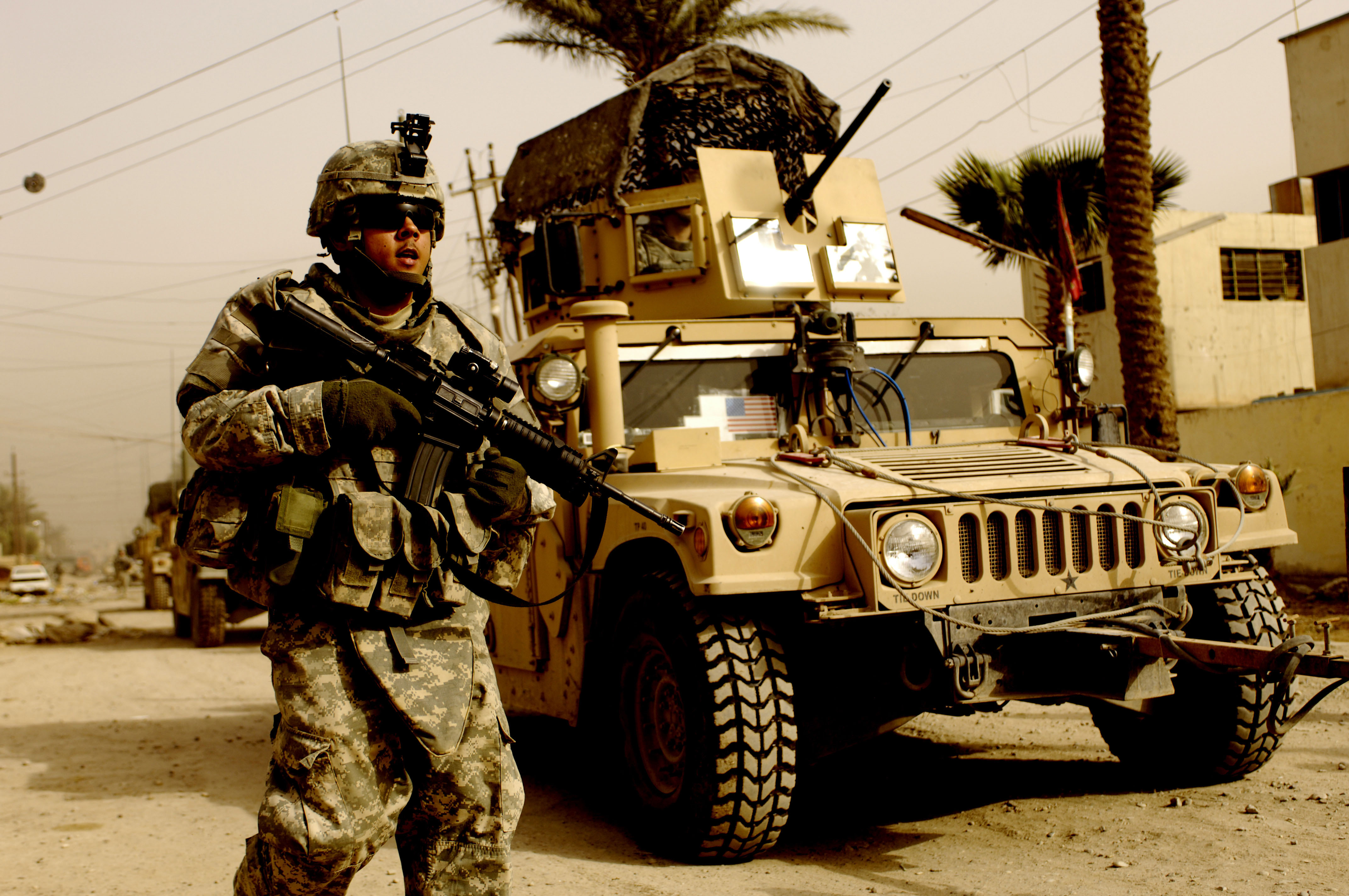 U.S. Army Pfc. Angel Marrero, assigned to 2nd Platoon, Bravo Battery, 5th Battalion, 25th Field Artillery Regiment, 4th Brigade Combat Team, 10th Mountain Division, conducts a patrol in Karadah, Iraq, on March 19, 2008.